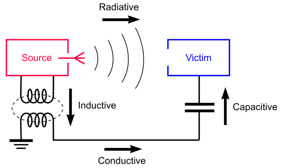 The four types of coupling path involved in electromagnetic interference (EMI).